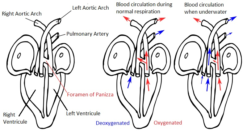 Diagram of Crocodilian Heart and Circulation. English verison of File:Foramen of Panizza-gl.svg by Miguelferig